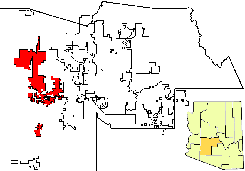 Map of approximate corporate boundary of Buckeye, Arizona, within Maricopa County